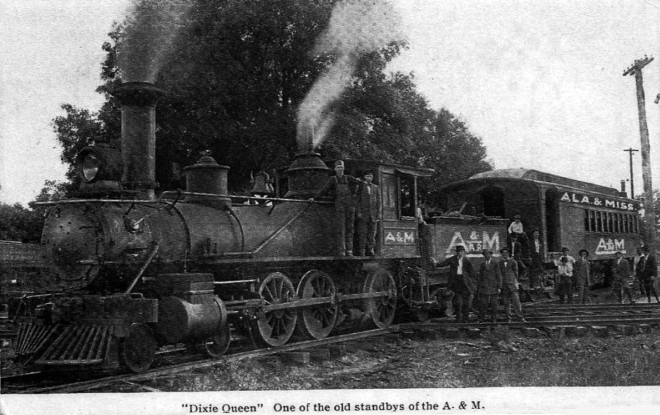 Postcard photo of "Dixie Queen", a steam locomotive of the Alabama and Mississippi Railroad.